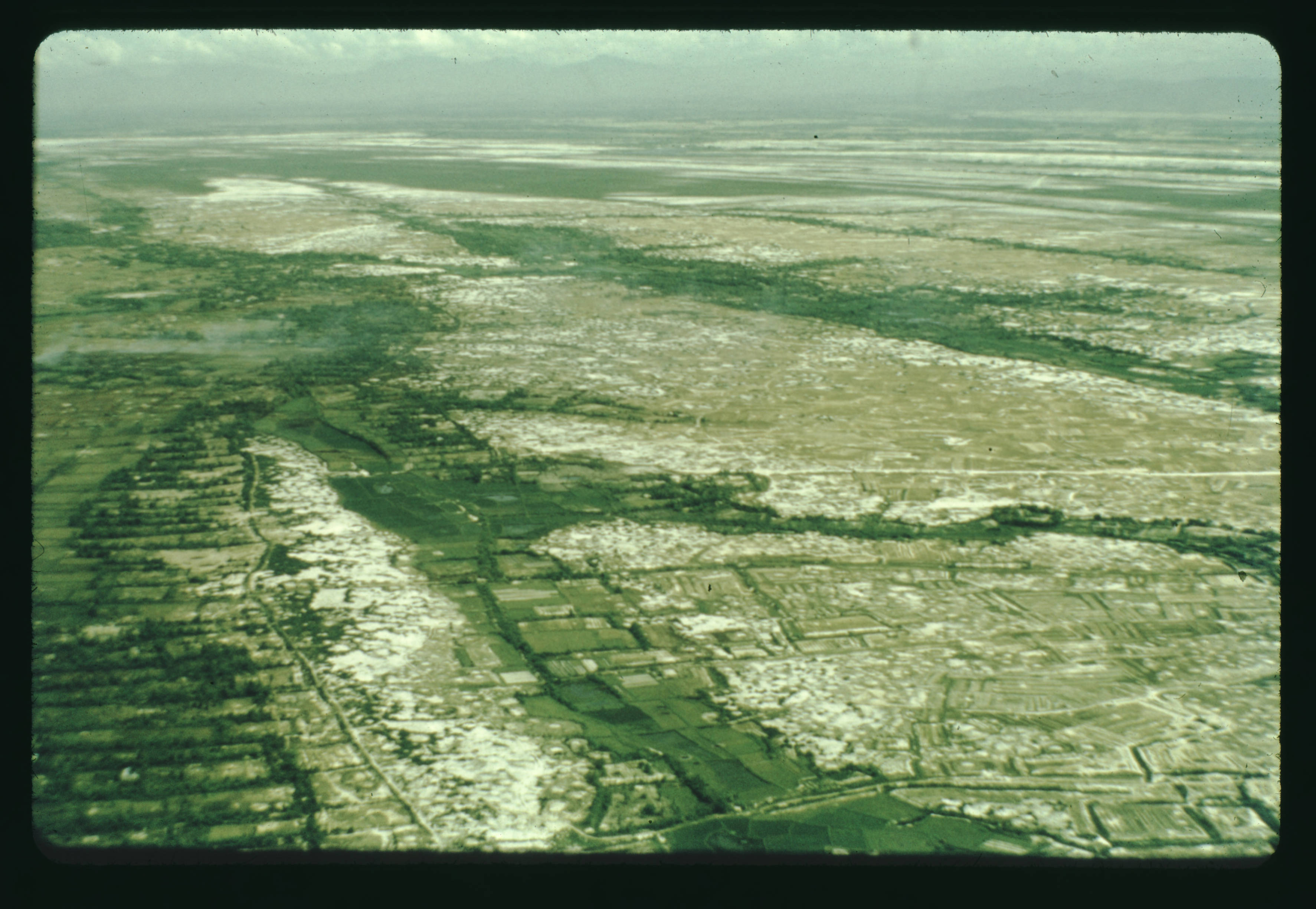 Inland from Wunder Beach is the region christened by the French soldiers, "la rue sans joie" or "Street Without Joy." A string of heavily-fortified villages along a line of sand dunes and salt marshes stretching from Hue to Quang- Tri".